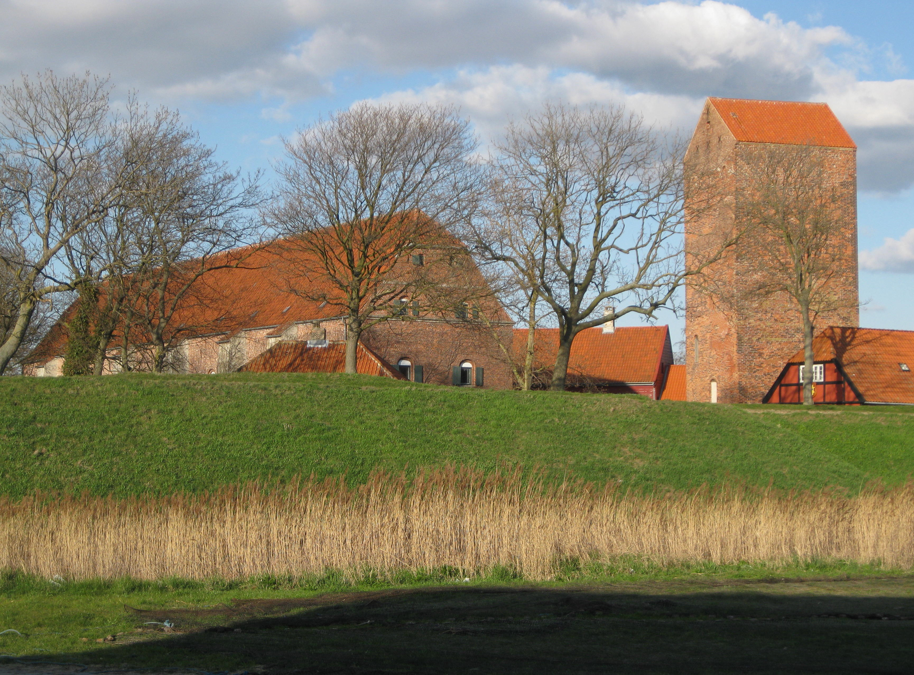 The fortress "Korsør Søbatteri" at the habour of Korsør. The town is located in West Zealand, Denmark.